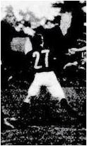 Chris Cameron of the Carlton Football Club during the round 13 VFL match between the Carlton Football Club and Collingwood Football Club on 19 July 1913 at Princes Park in Melbourne, Victoria.